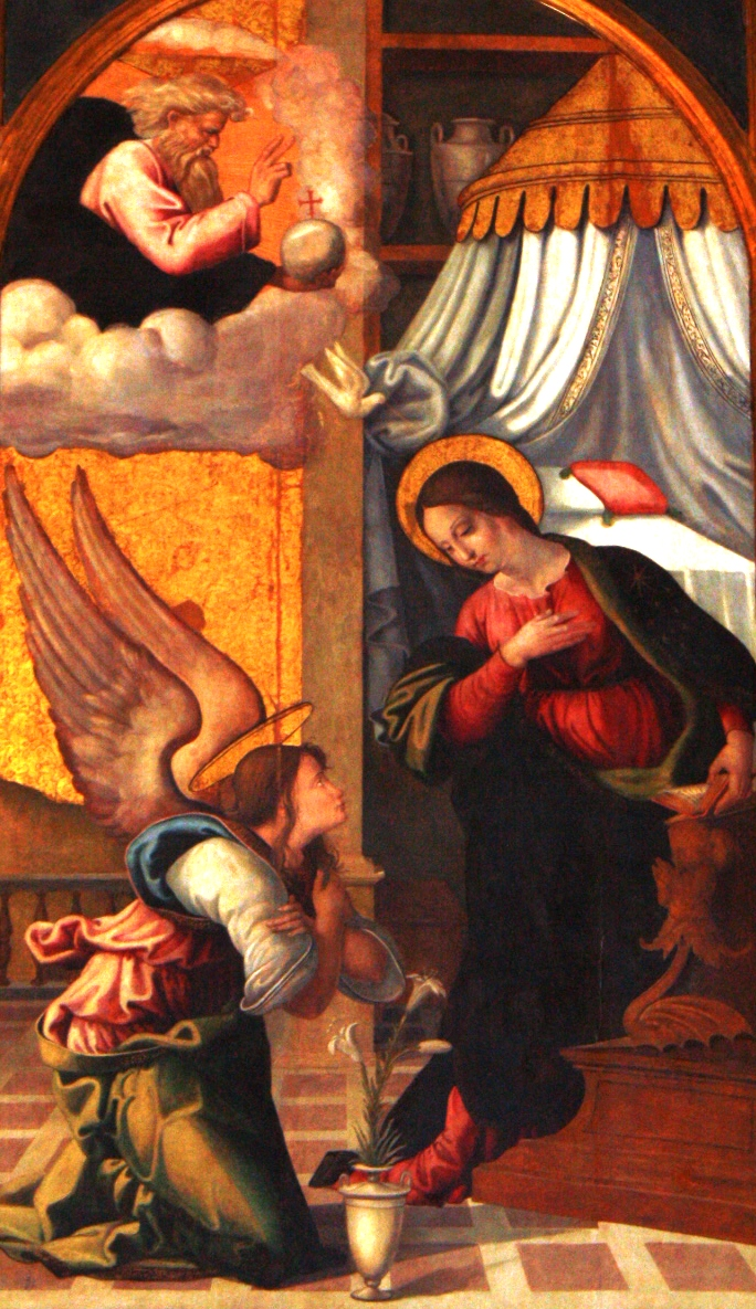 The Annunciation